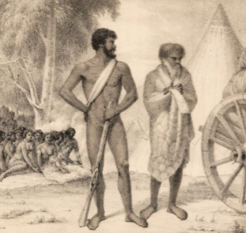 Piper with people from Lake Benanee during Thomas Mitchell's third expedition